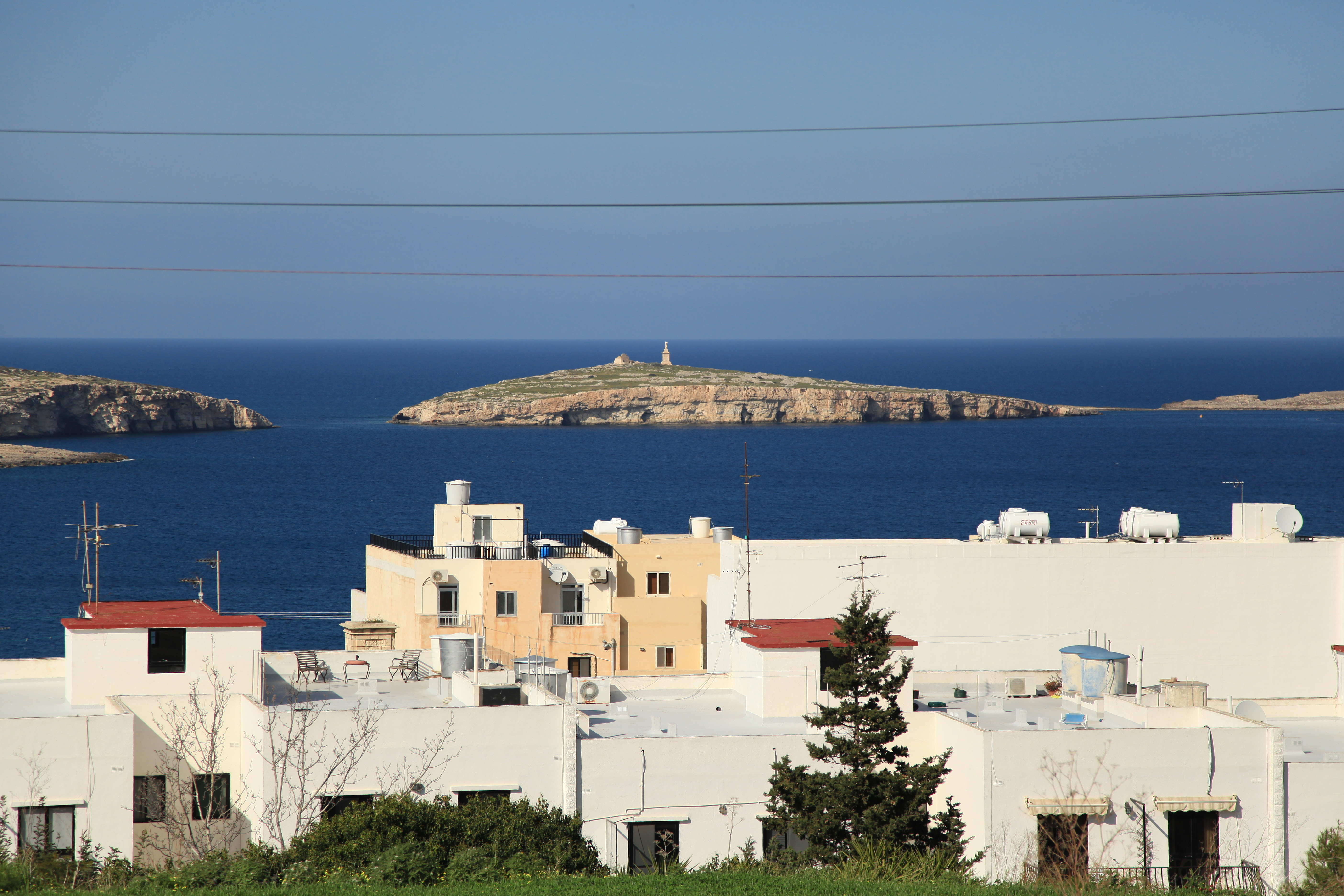 View from a Malta sightseeing north tour bus to the St. Paul's Islands in Mellieħa